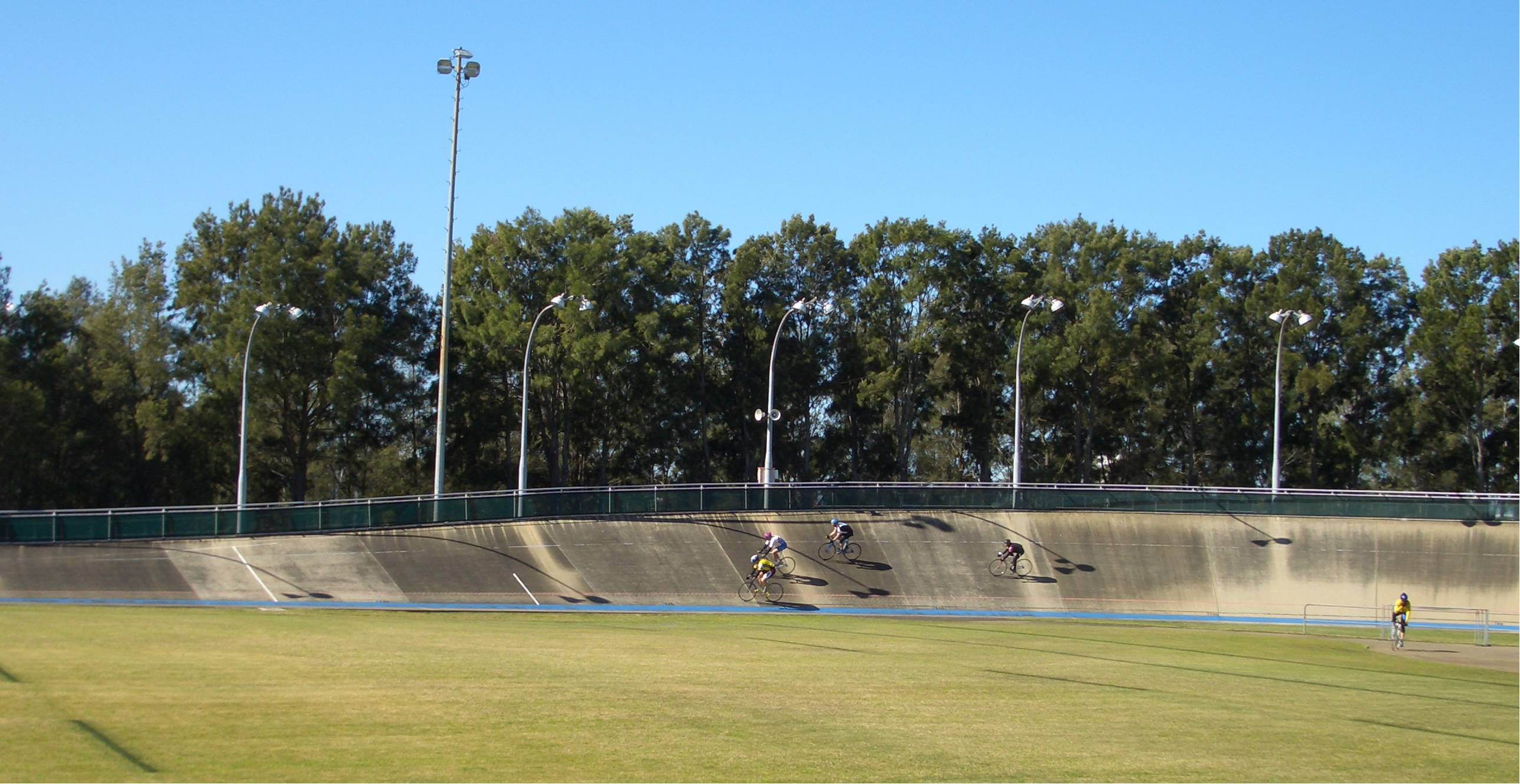 Velodrome at Waterworth Park in Undercliffe, Sydney, Australia. I took this photo on the 20th August 2006. J Bar 01:44, 22 August 2006 (UTC)